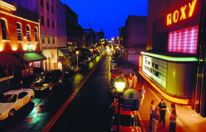 Photo of Downtown Clarksville